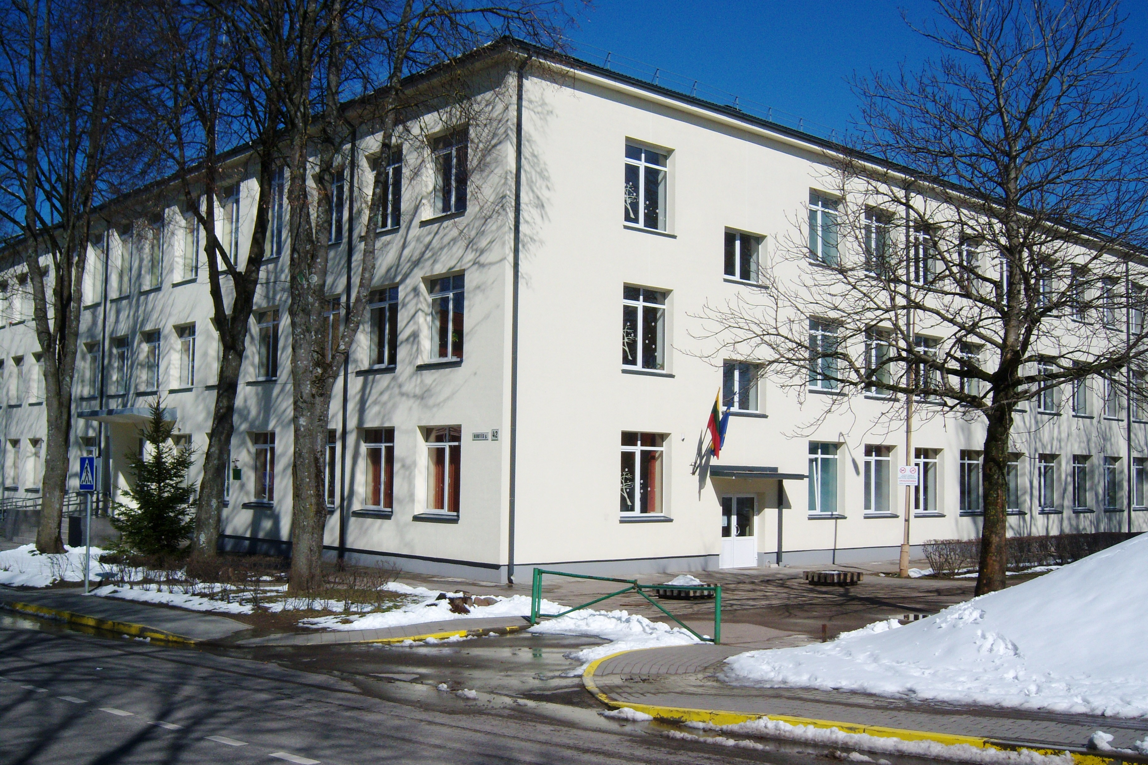 Birutės Street 42, Trakai, Lithuania